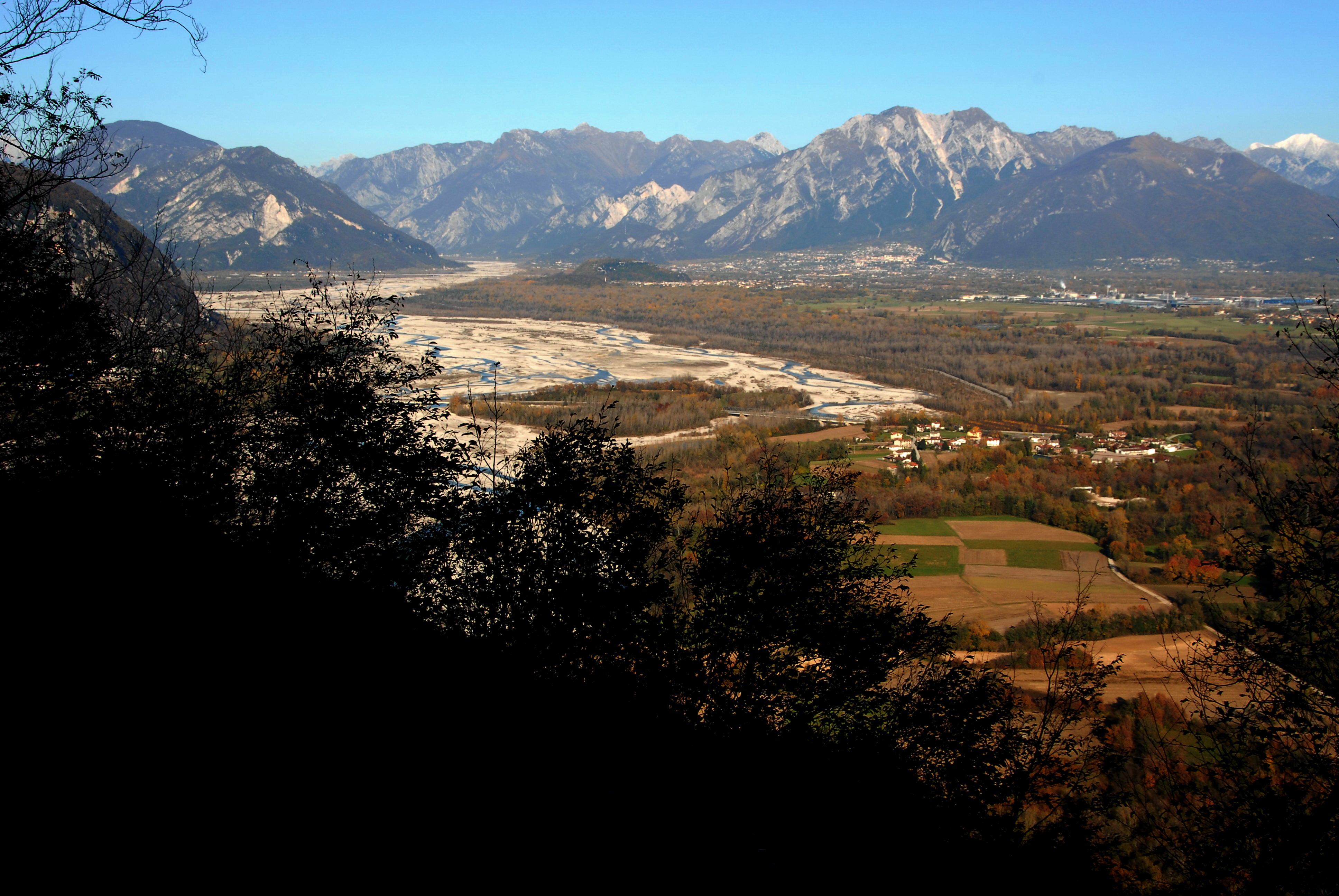 Riverbed of the Tagliamento with Gemona in the background, province Udine, Friuli, Italy